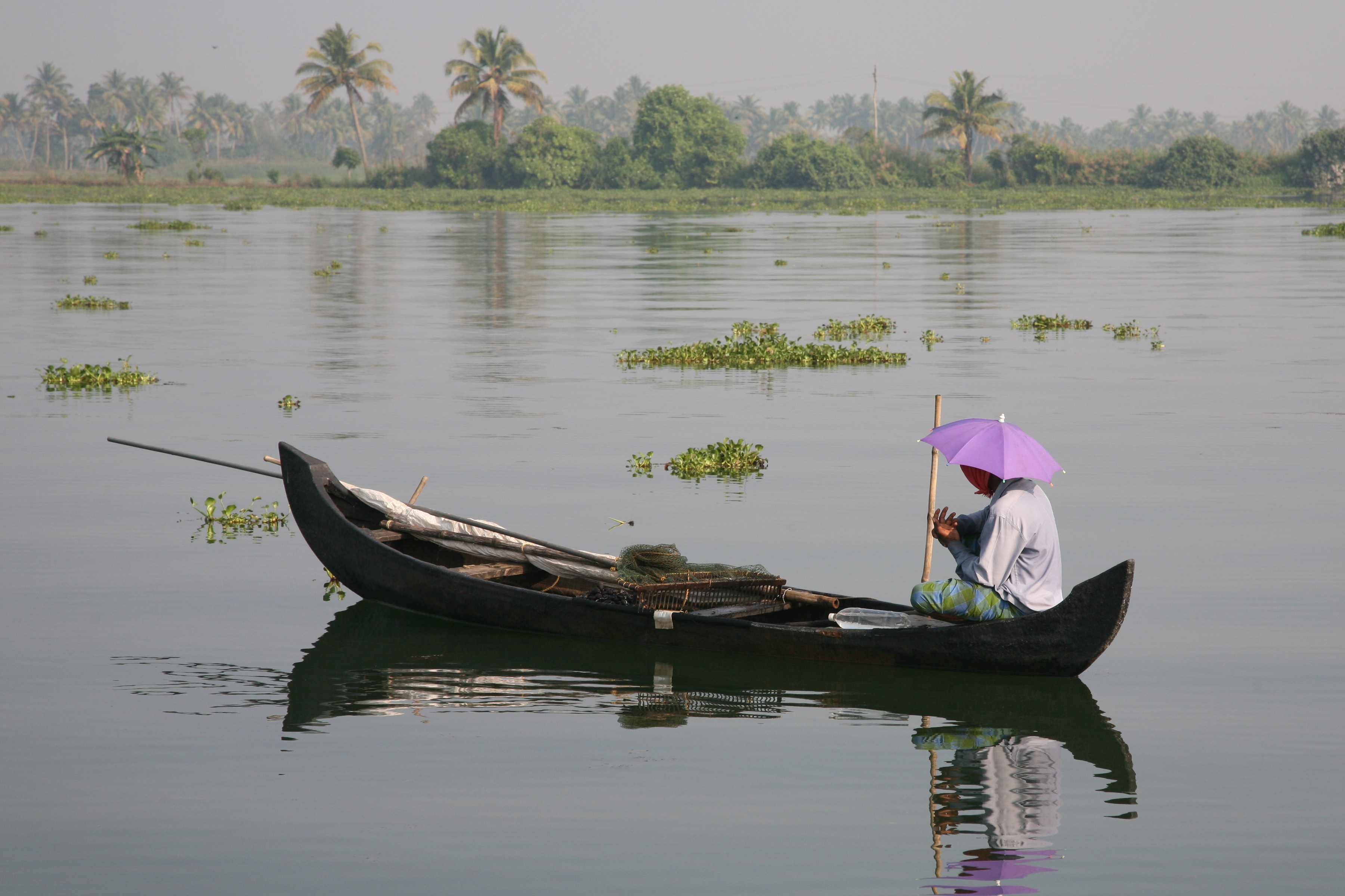 From the backwaters in Kerala (Near Punnamada Lake).